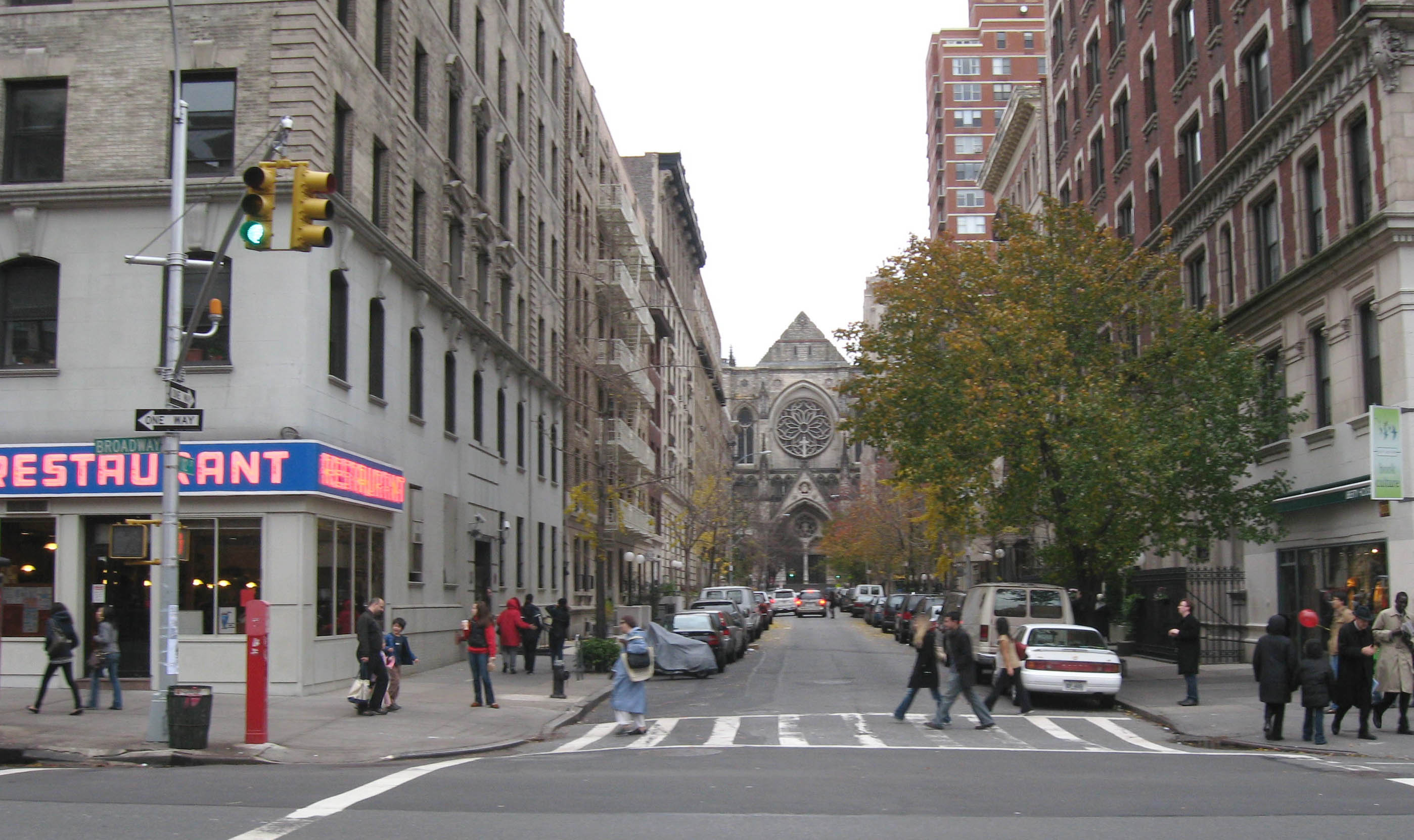 Looking east across Broadway, past Tom's Restaurant, down West 112th Street on a cloudy afternoon. ZIP 10025.